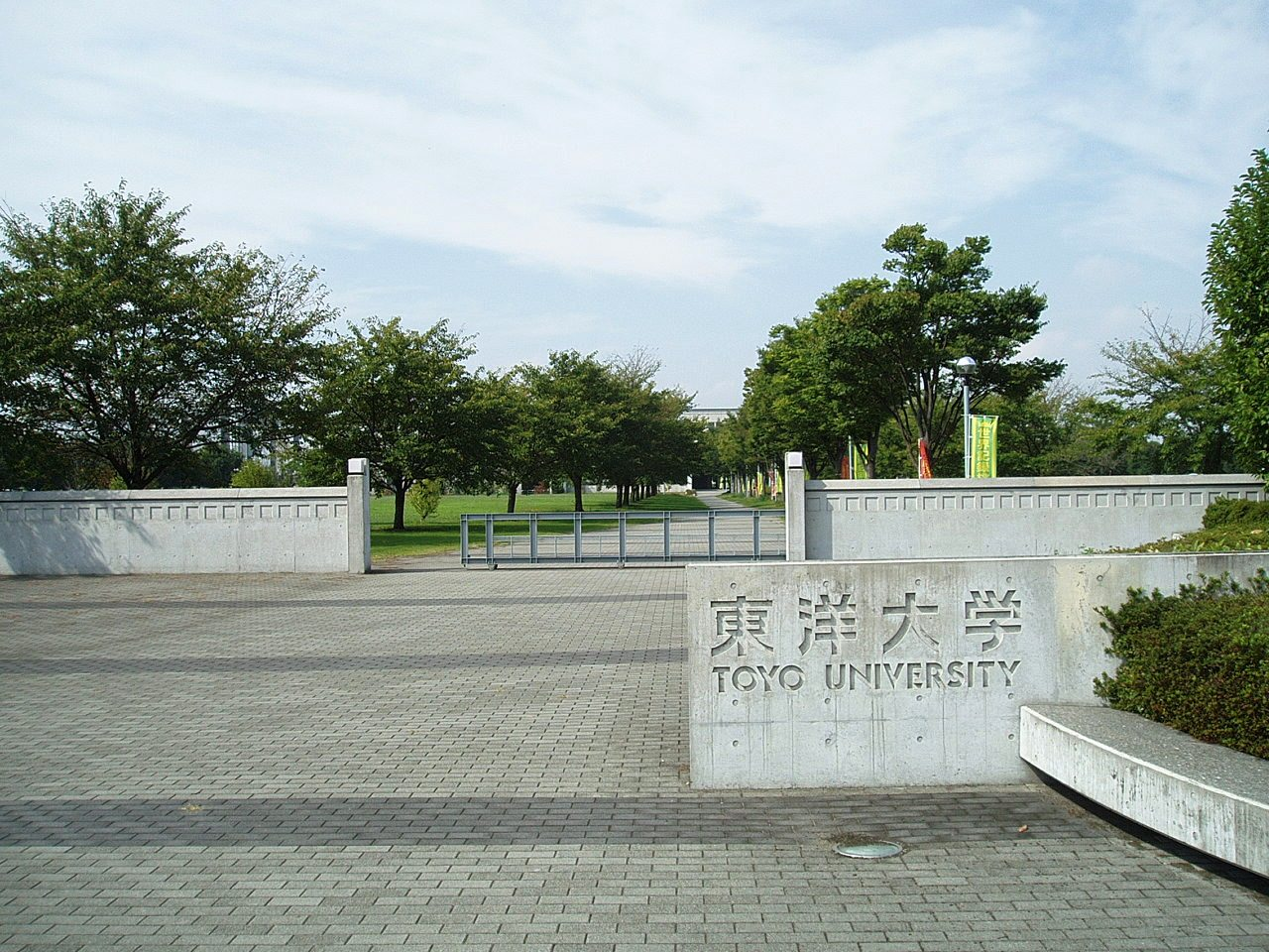 Main Gate at Toyo University Itakura Campus, located in Itakura Town, Gunma Prefecture, Japan